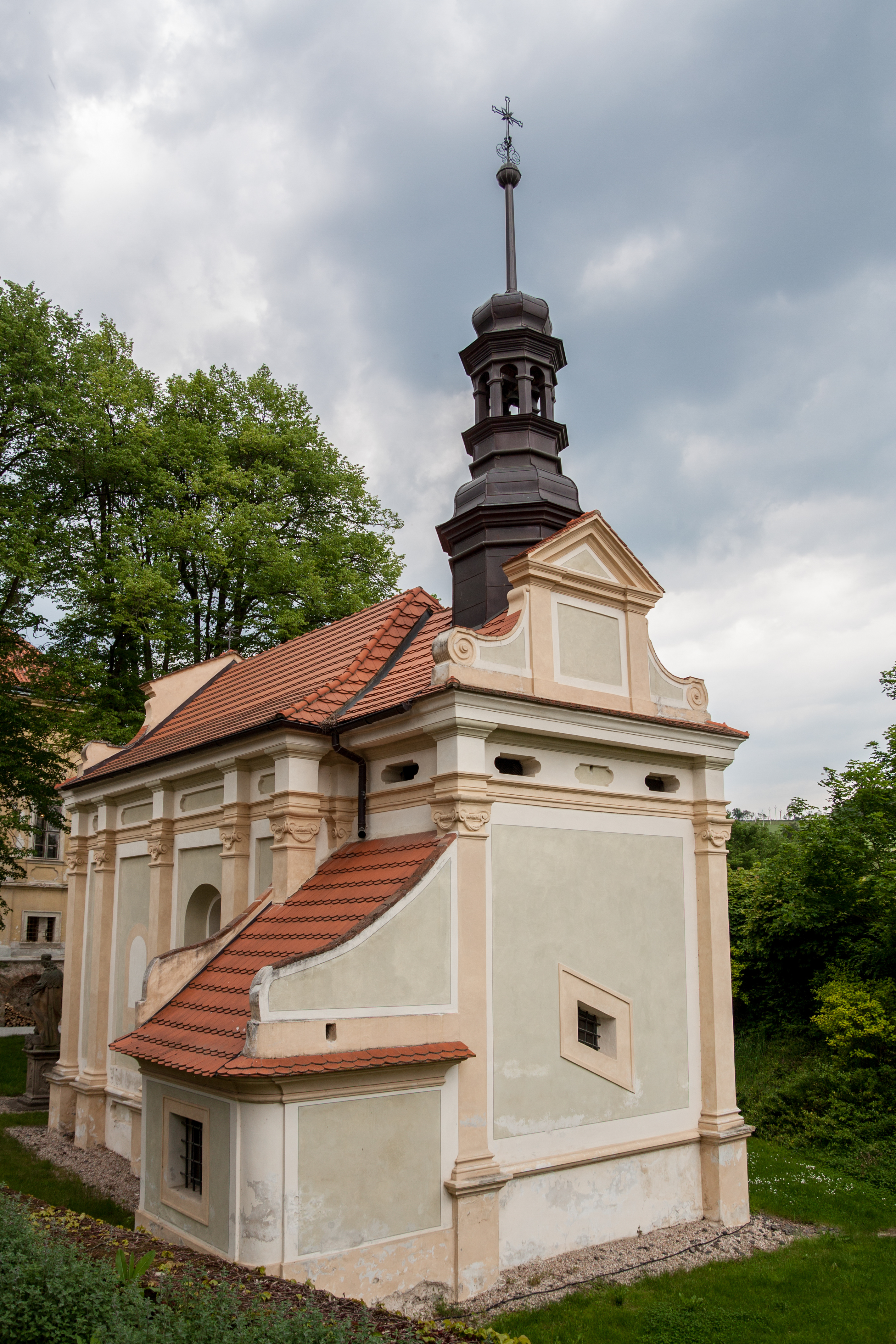 Chapel in village Radíč, Příbram District, Central Bohemian Region, Czechia